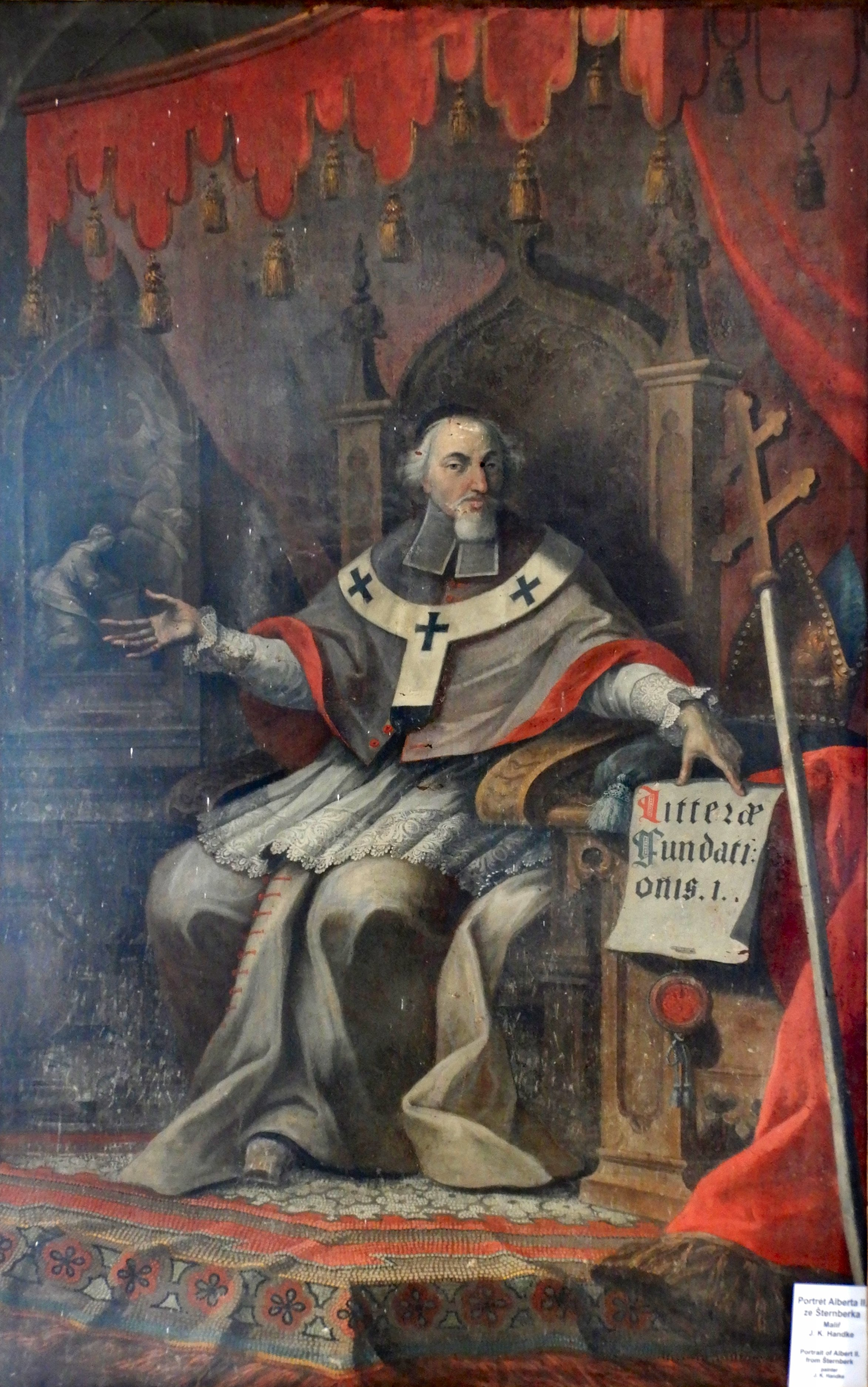 Painting of Albrecht von Sternberg in Augustinian monastery in Šternberk. Painting was Jan Kryštof Handke (Johann Christoph Handke) in 17??.